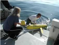 NOAA personnel launch a Slocum glider for an oceanographic sampling mission.